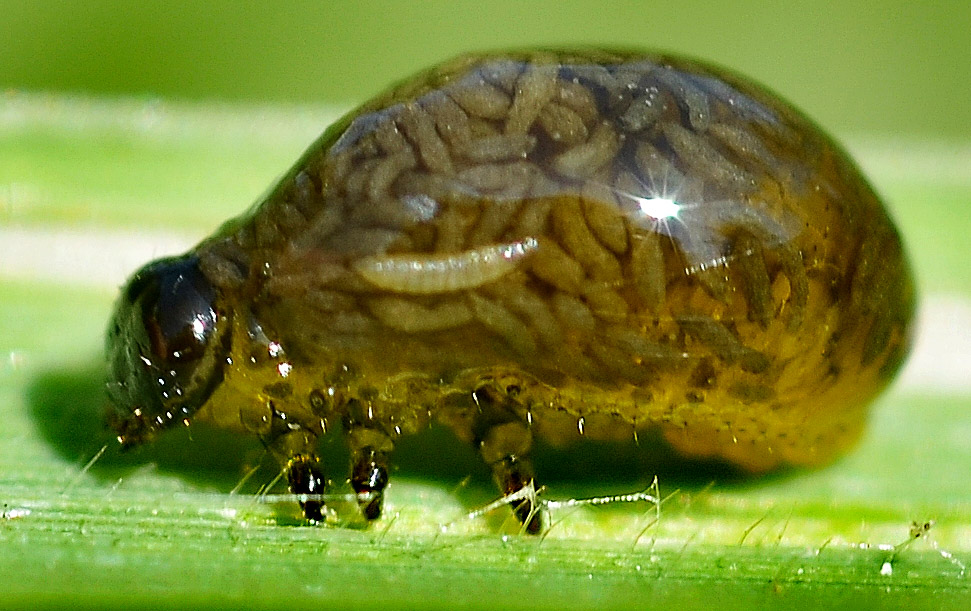 Leaf Beetle larva of the subfamily Criocerinae (Coleoptera, Chrysomelidae, Criocerinae, genus Lema sp. or Oulema sp.) The larva is covered by its own excreta Locality : Jambes, Belgium WARNING : this picture has circulated a lot on the internet claiming that it shows a Criocerinae larva covered by parasitic larvae of Tetrastichus julis. This is not true. There is indeed something that seems to be one segmented larva withing the fecal shield but it is very unlikely to be Tetrastichus julis which is an endoparasite. The rest is the normal fecal shield present in many criocerinae larvae. See the following blog post and also the comments at the end for